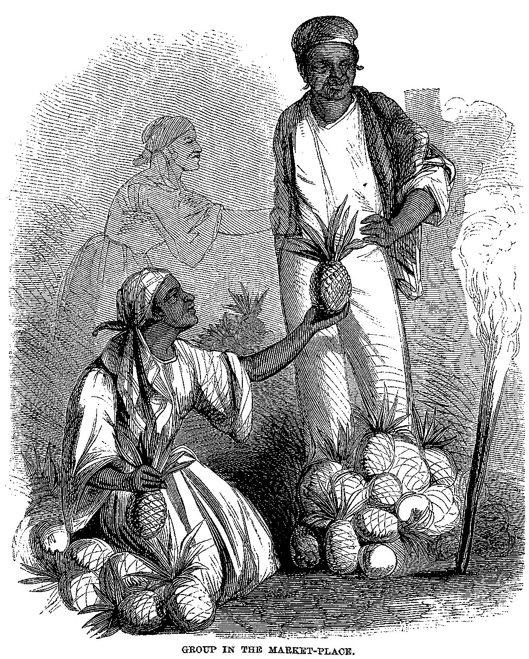 "Group in the Marketplace", illustration of article "Cast-away in Jamaica" by W.E. Sewell, in Harper's Monthly Magazine, January 1861.